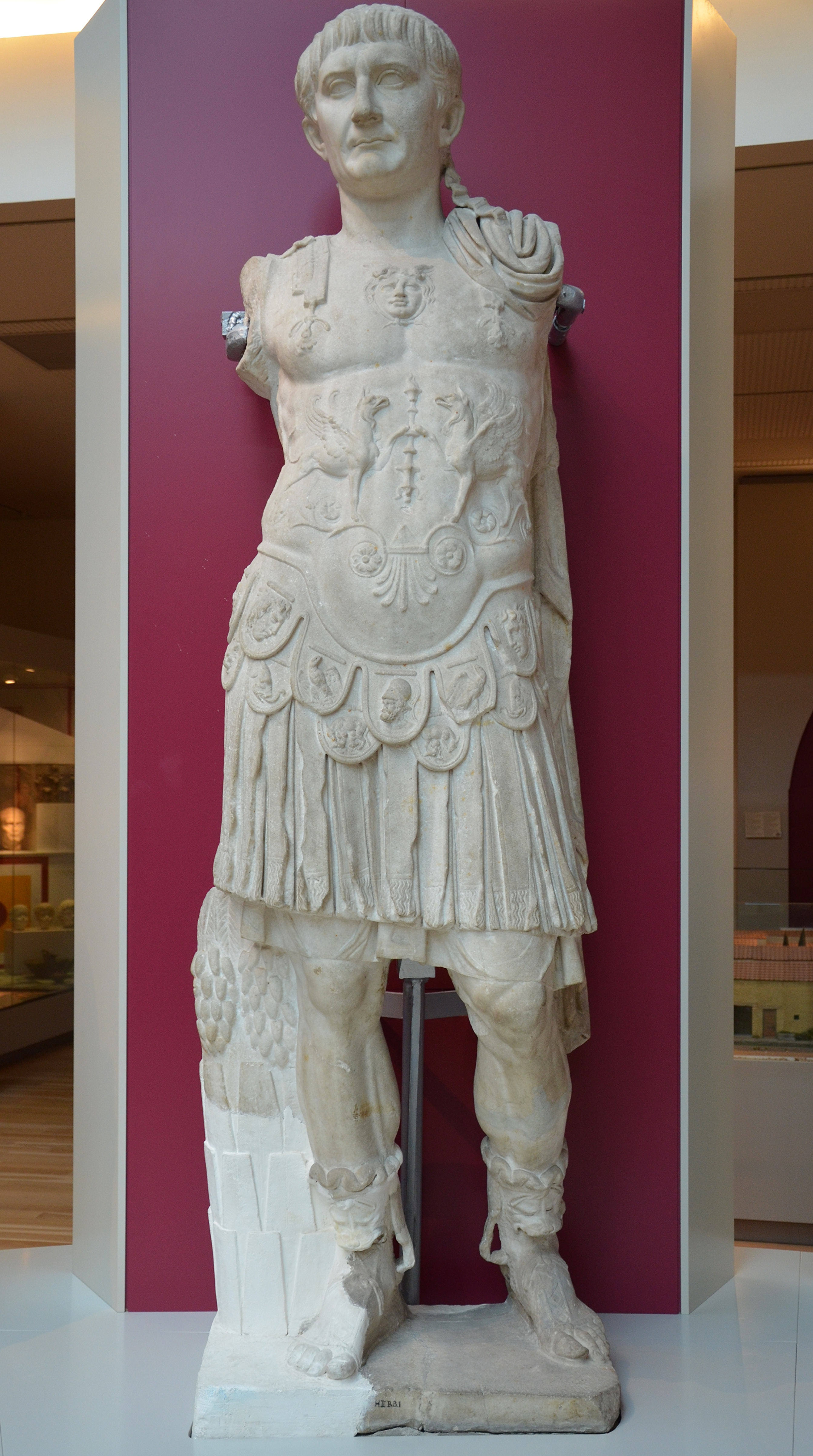 Statue of Trajan from Utica (Tunisia), Rijksmuseum van Oudheden, Leiden